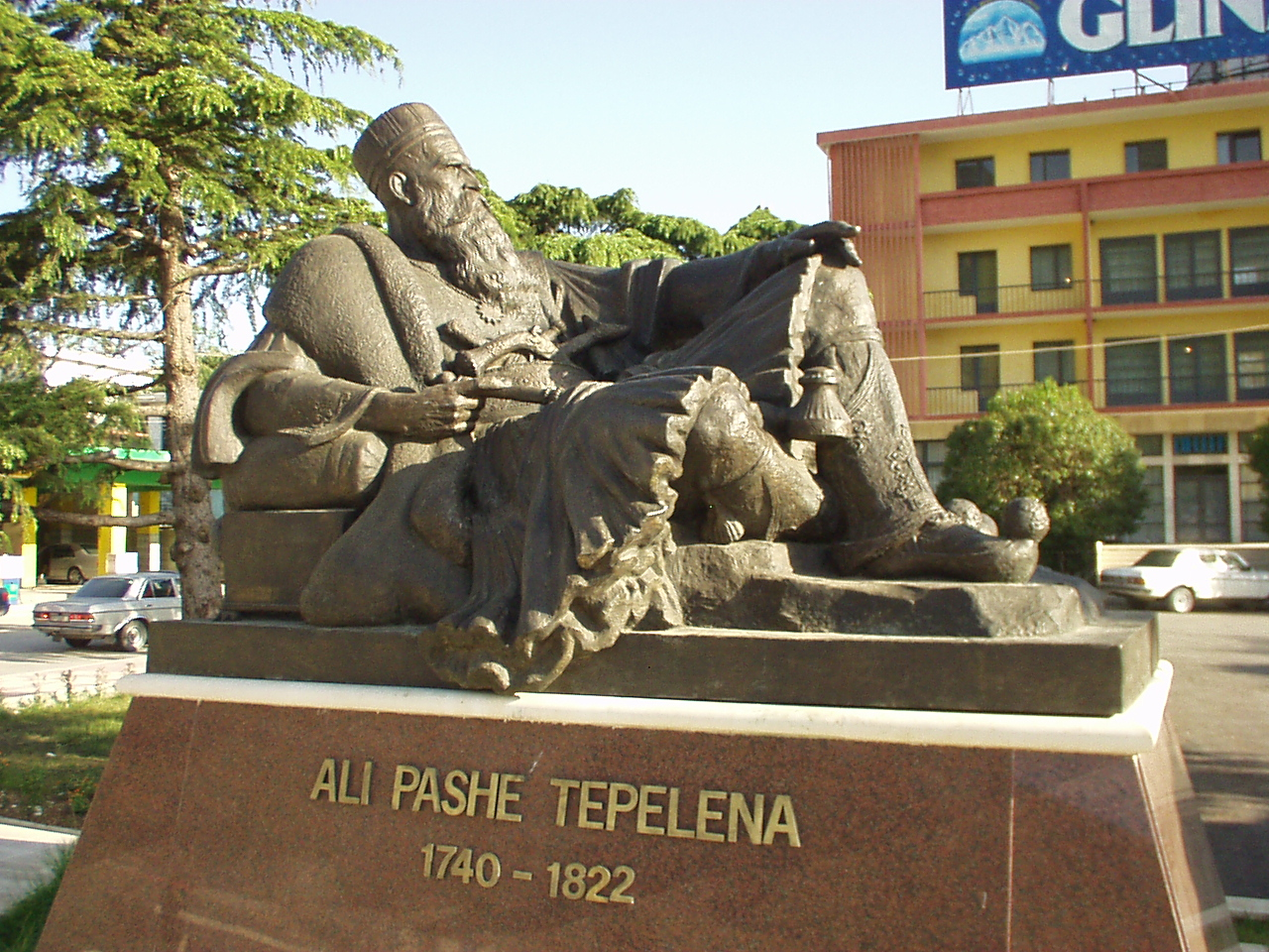 Ali Pasha statue, Tepelene, Albania